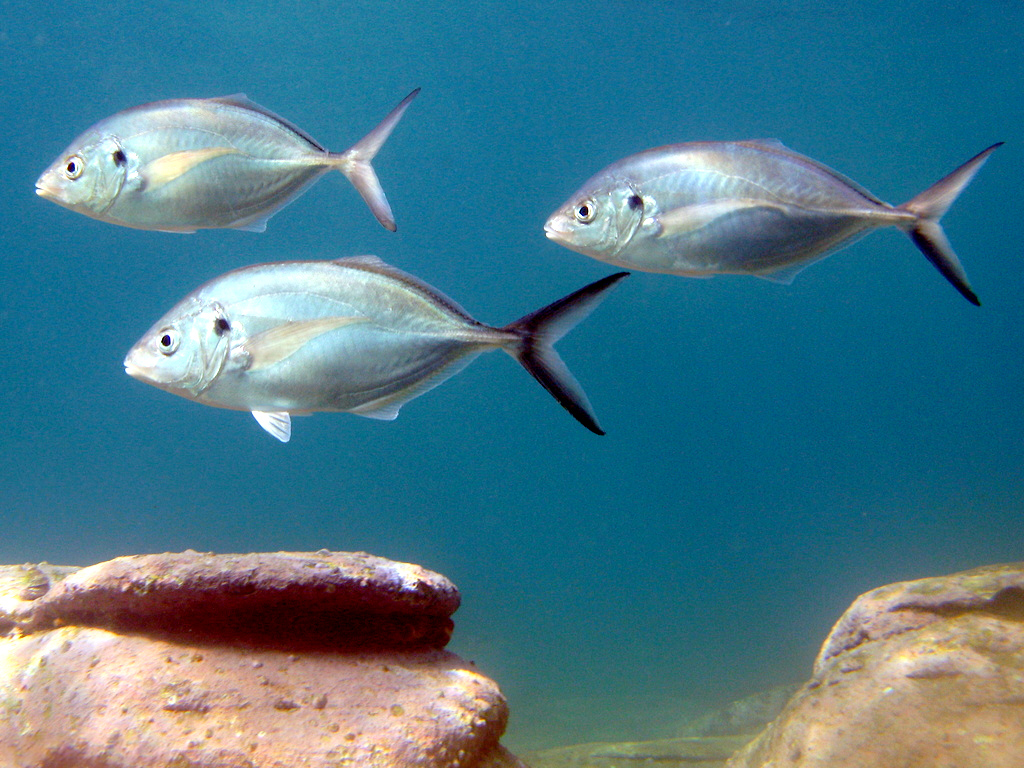 A shoal of juvenile Silver Trevally (Pseudocaranx dentex). Fairy Bower, Manly, NSW